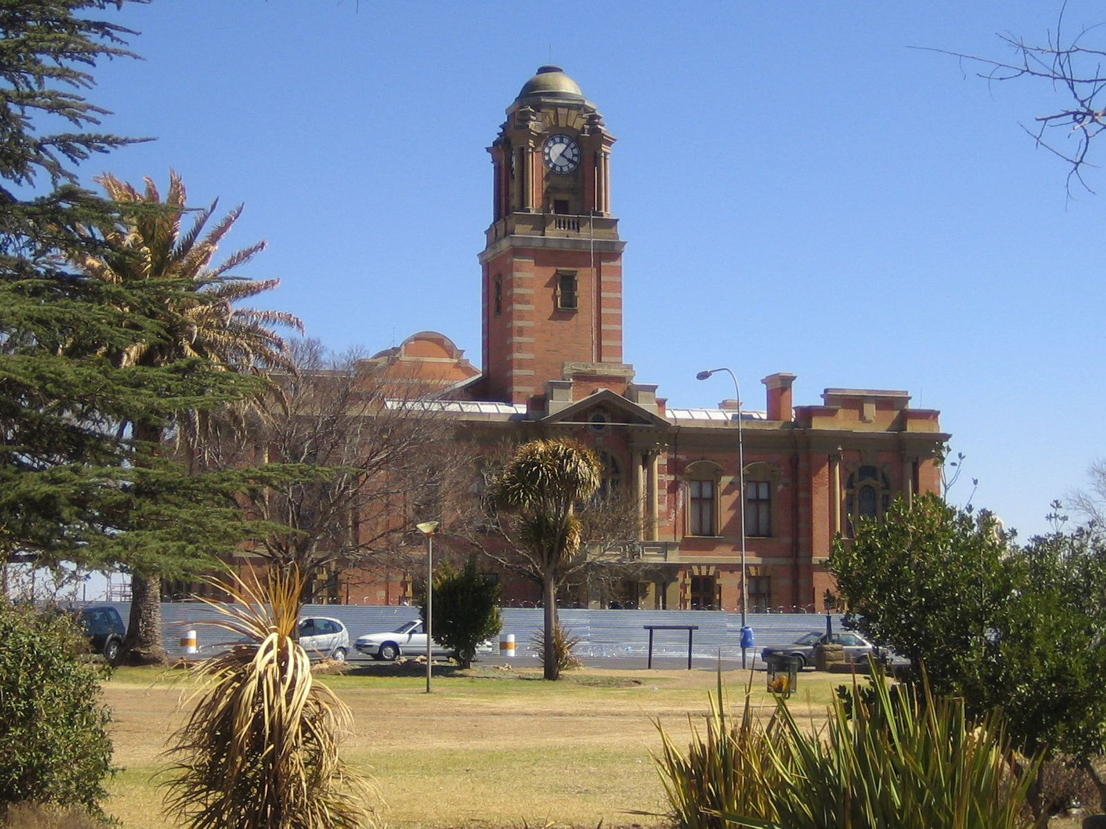 Harrimith Town Hall.